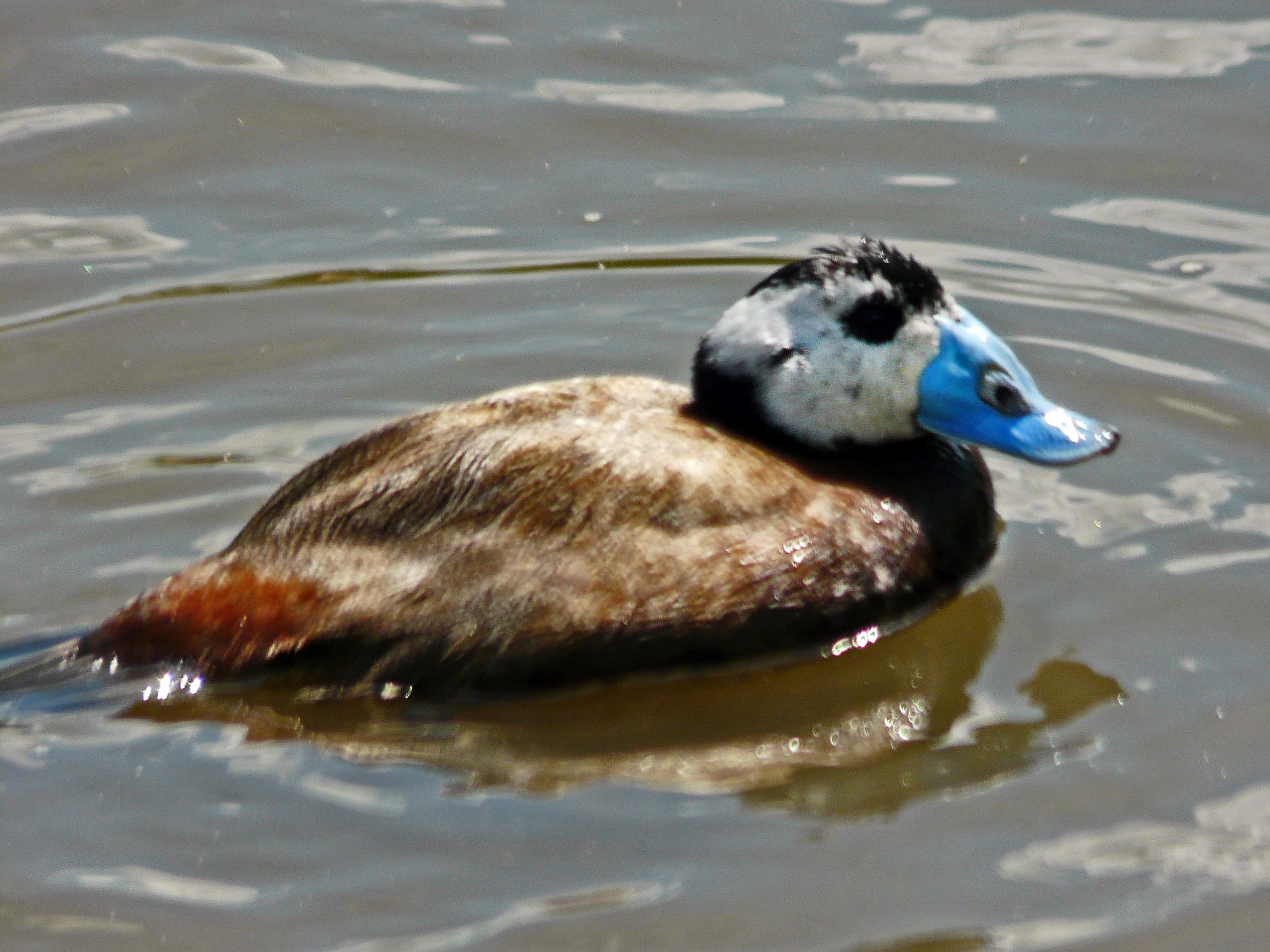 Male White-headed duck (Oxyura leucocephala).